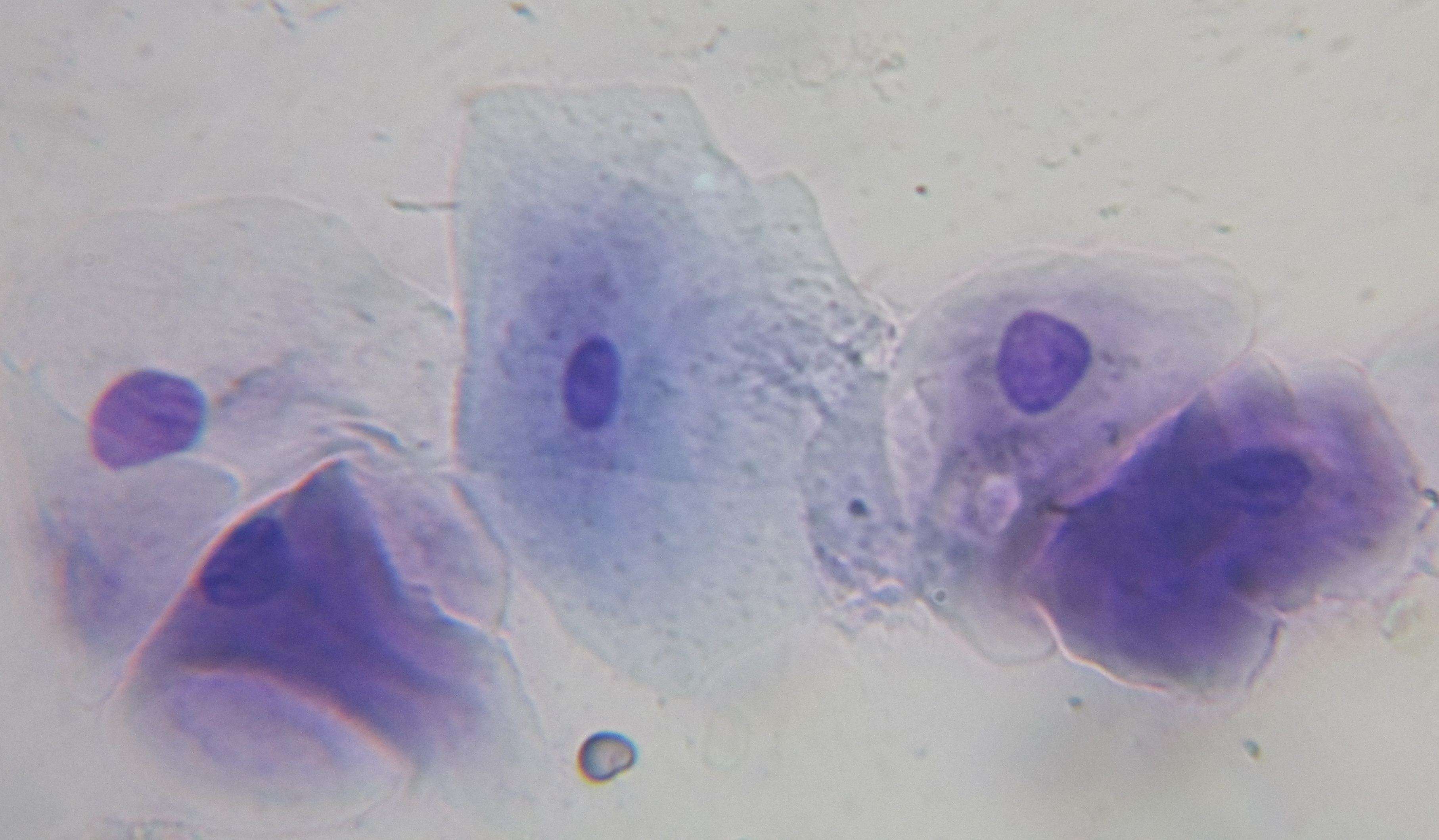 vaginal smear from a cat in metestrus